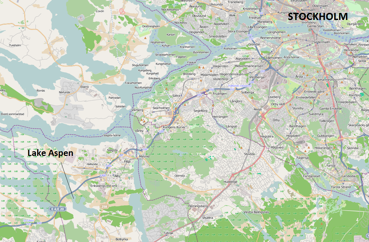 Lake Aspen, Botkyrka Municipality